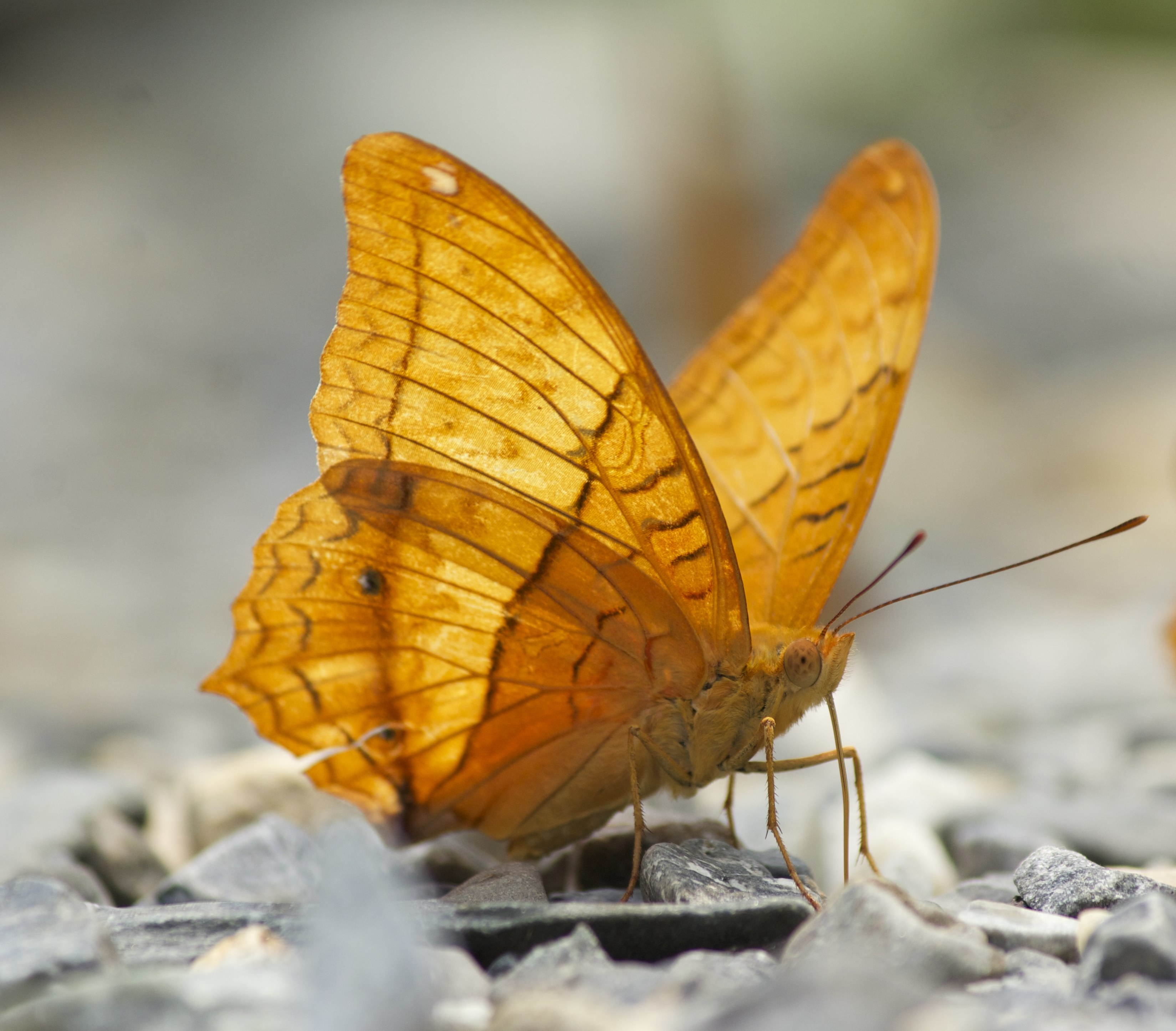 This image was taken in the project Wiki Loves Butterfly.Cruiser Vindula erota